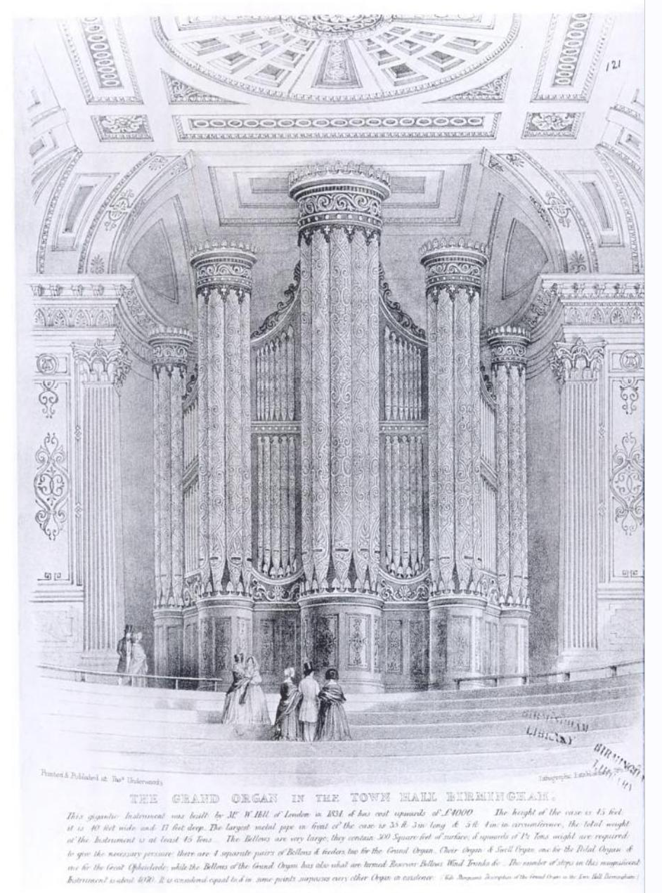 Engraving of the Grand Organ constructed by William Hill in Birmingham Town Hall in 1834